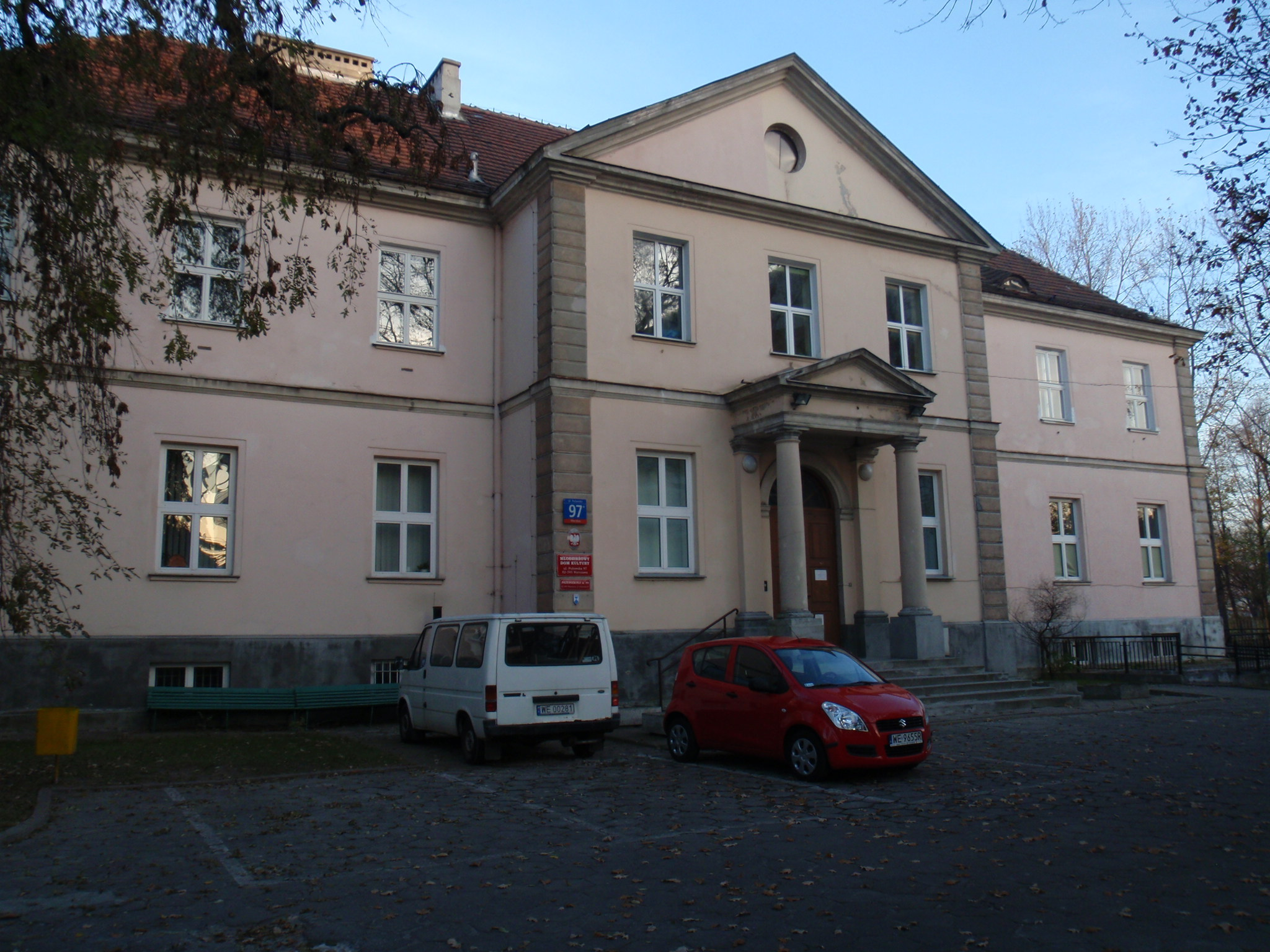 Mokotów Cultural Center. Previously Institute of Morally Neglected Children. Mokotów, Warsaw